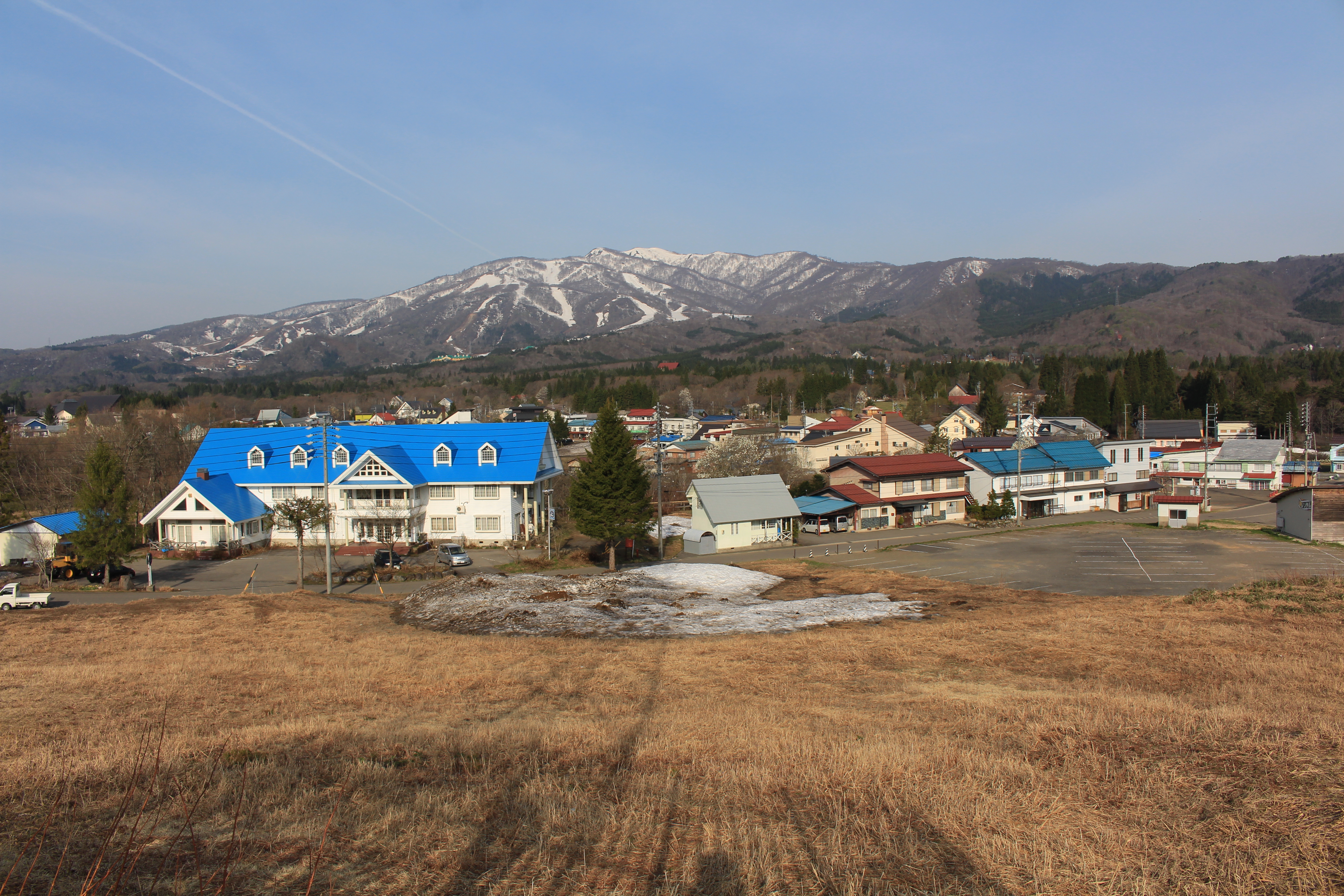 Mount Dainichi from seen Hiruganokogen in Gujo, Gifu prefecture, Japan.